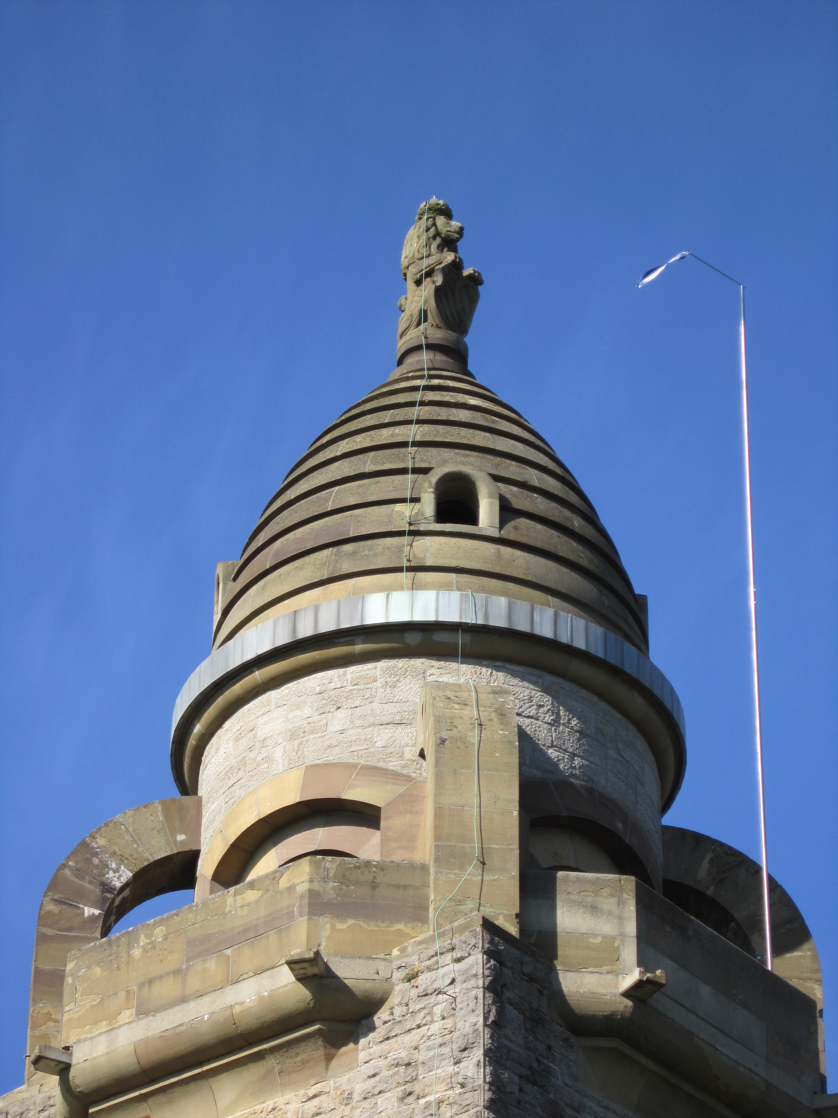 The top of the "Wittelsbacher Turm", an observation tower in Arnshausen, a quarter of the German spa town Bad Kissingen in Lower Franconia (Bavaria), with a lion sculpture made by Valentin Weidner